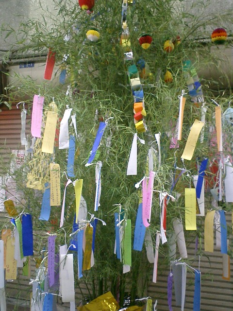 The Star Festival (In front of Keihan railroad, Doi station, as Asahi, shopping street)